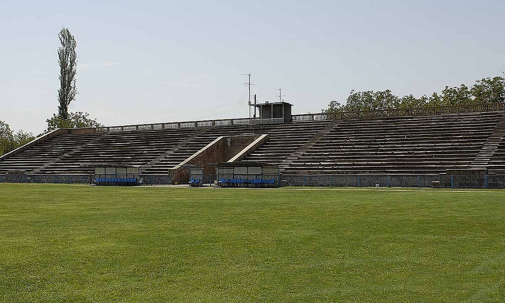 Kasakhi Marzik Stadium, Ashtarak, Armenia.